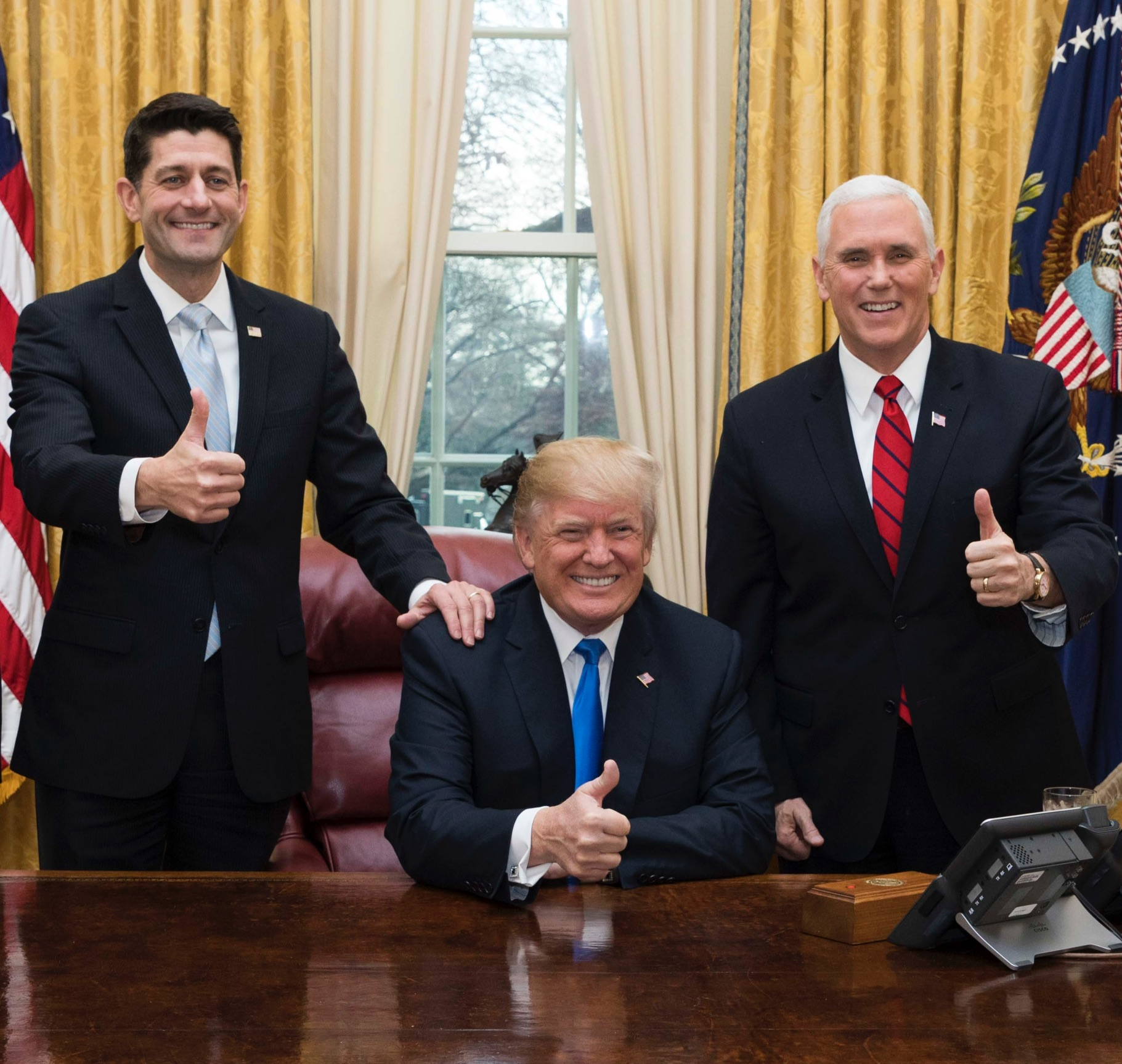 President Donald J. Trump celebrates the passage of the Tax Cuts Act with Vice President Mike Pence, Senate Majority Leader Mitch McConnell, and Speaker of the House Paul Ryan | December 20, 2017 (Official White House Photo by Joyce N. Boghosian)